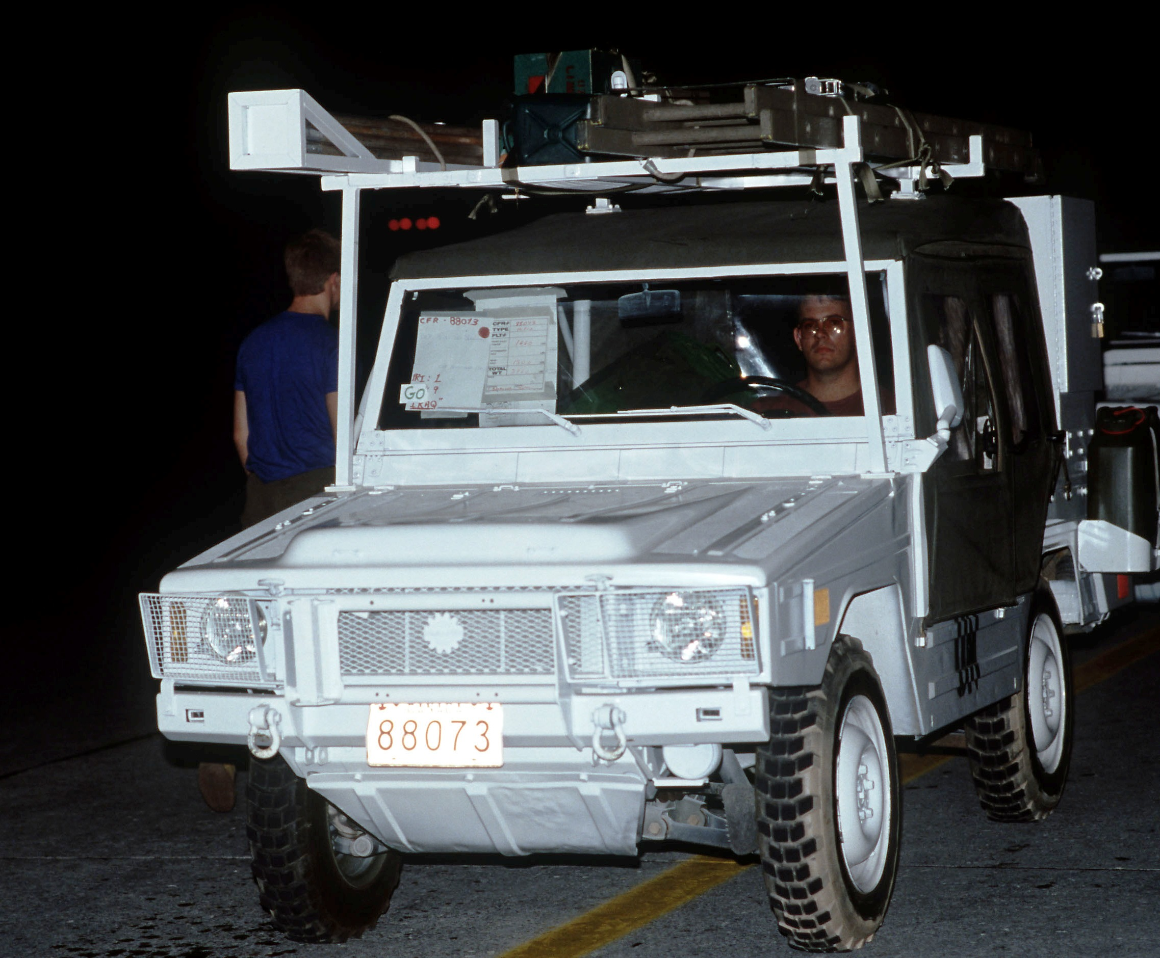 The driver of an Iltis 4x4 light vehicle waits to drive aboard a U.S. Air Force aircraft. The U.S. is providing airlift support for Canadian troops that are part of a United Nations-sponsored peacekeeping force that will monitor the cease-fire between Iran and Iraq.